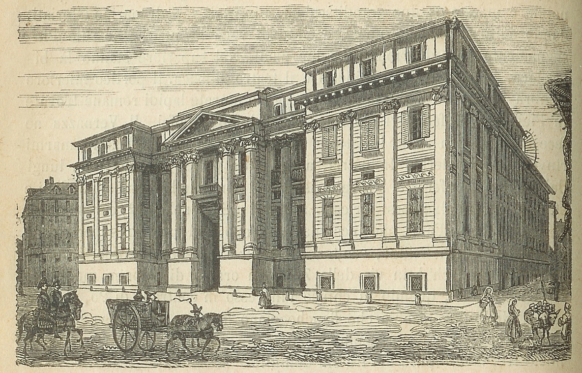 Engraving of Turin's Palazzo de'Magistrati Supremi (known also as Palazzo del Senato Sabaudo).